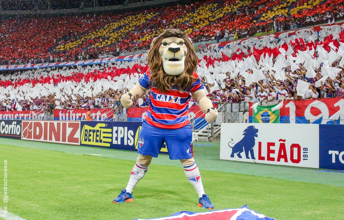 Mascot of Fortaleza Esporte Clube, from brazil.